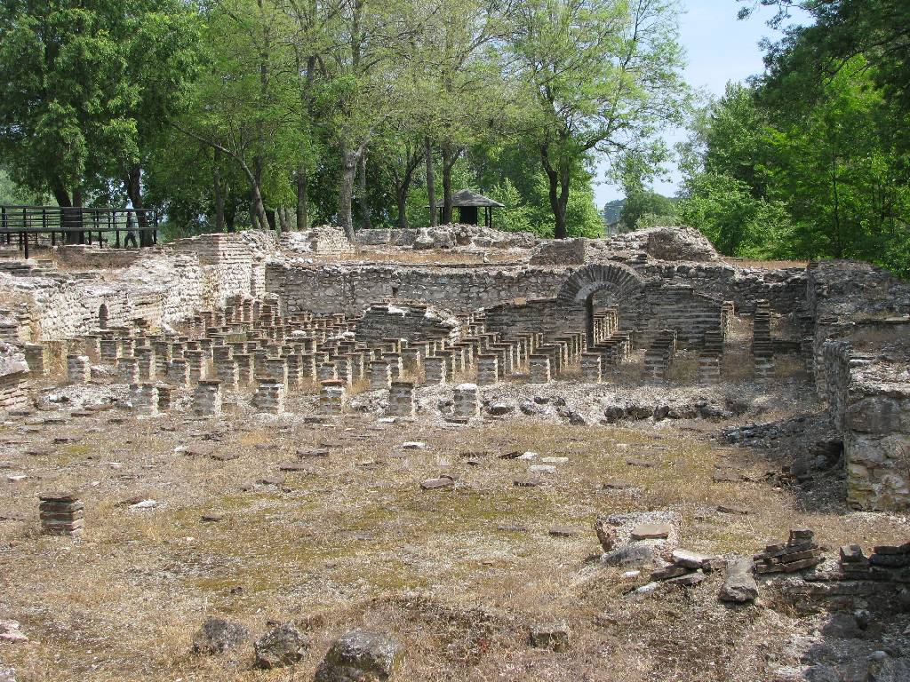 the Archaeological site at Dion